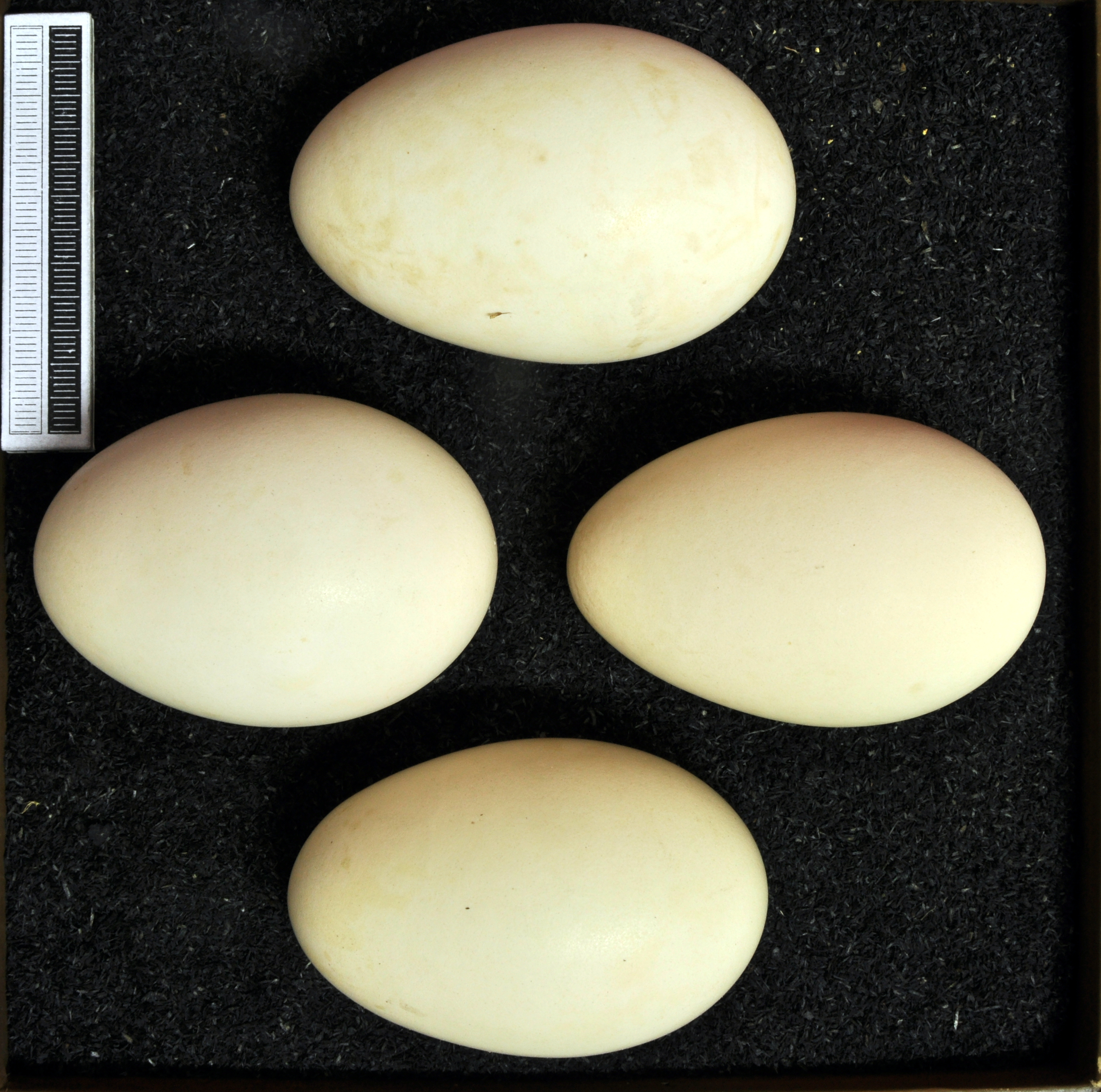 Velvet scoter Melanitta fusca , egg, Coll. Museum Wiesbaden